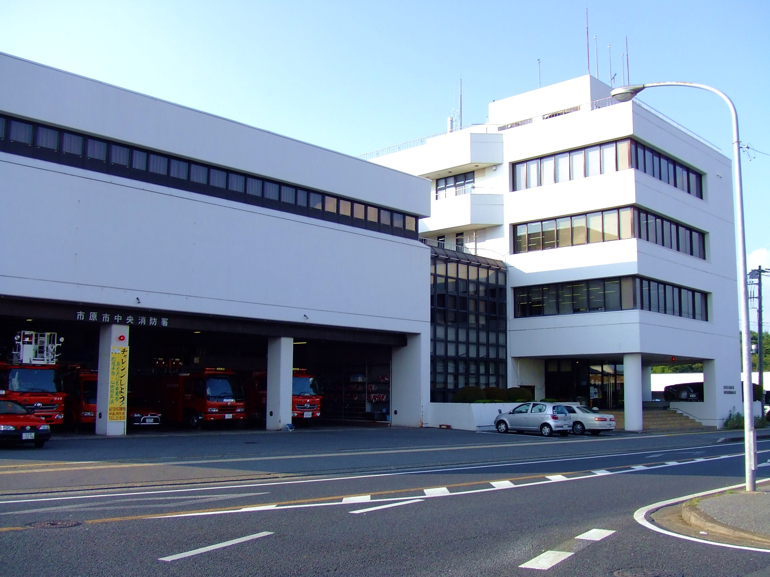 Ichihara Fire Department